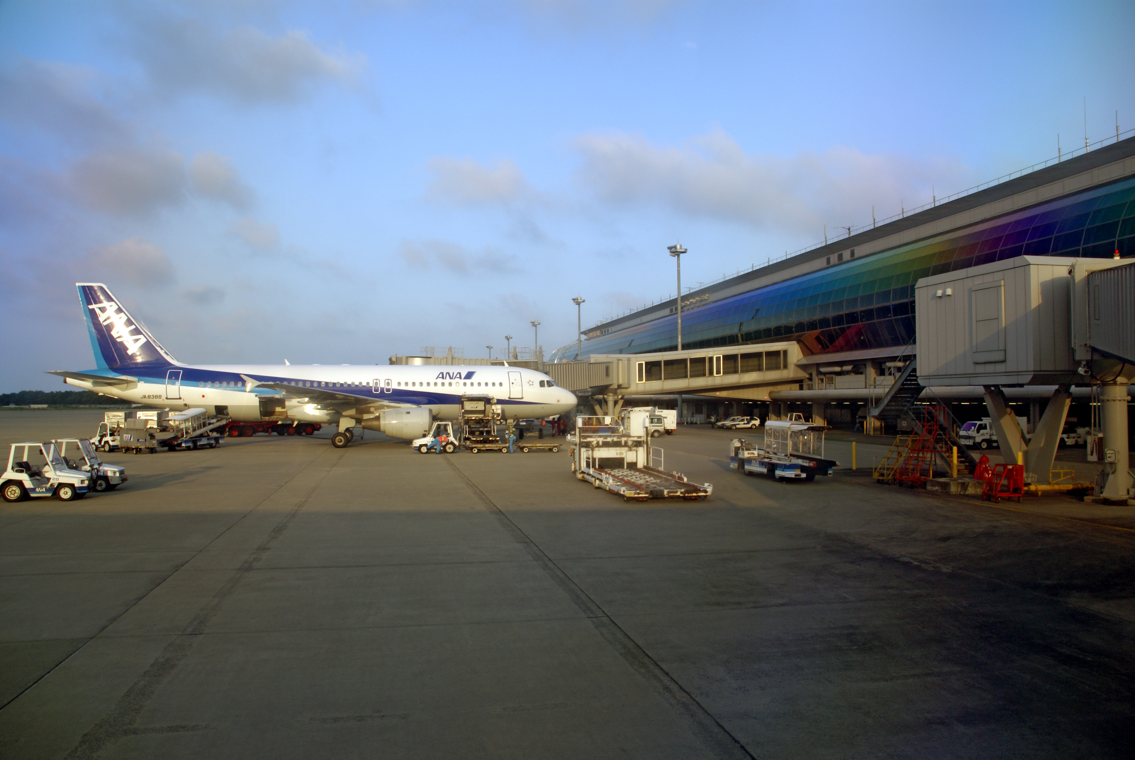 Sendai Airport in Natori and Iwanuma, Miyagi prefecture, Japan